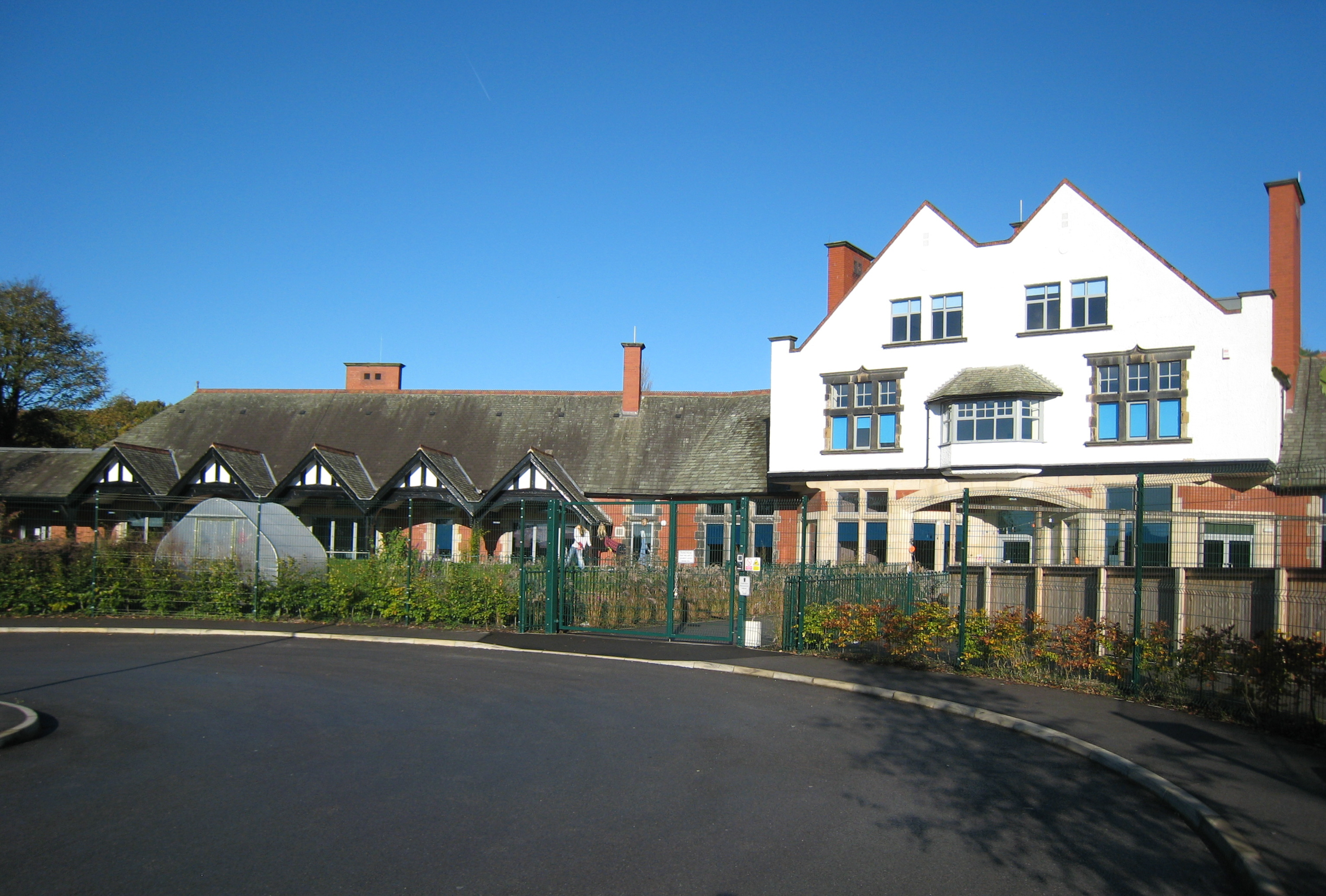 Lighthouse School, Hospital Lane, Ireland Wood, Leeds LS16 6QB. The building was formerly the Robert Arthington Hospital, then part of the Cookridge Hospital complex.